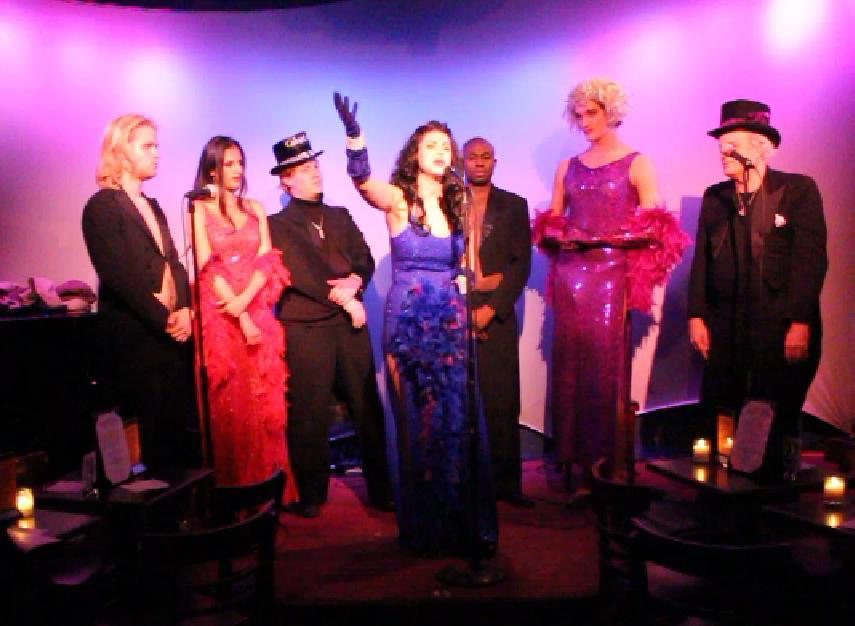 Cast members of Cabaret Large A-Cup at The Metropolitan Room do their show finale "With a Song in My Heart" Place: New York City